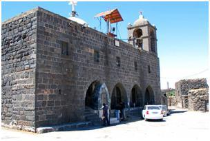 Marjaorgios Church in the Citadel of Tubna, Syria.